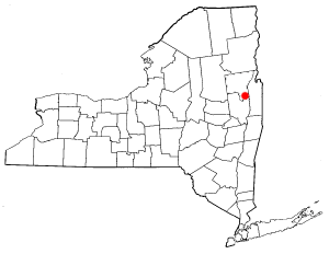 A map of New York State highlighting Glens Falls, New York